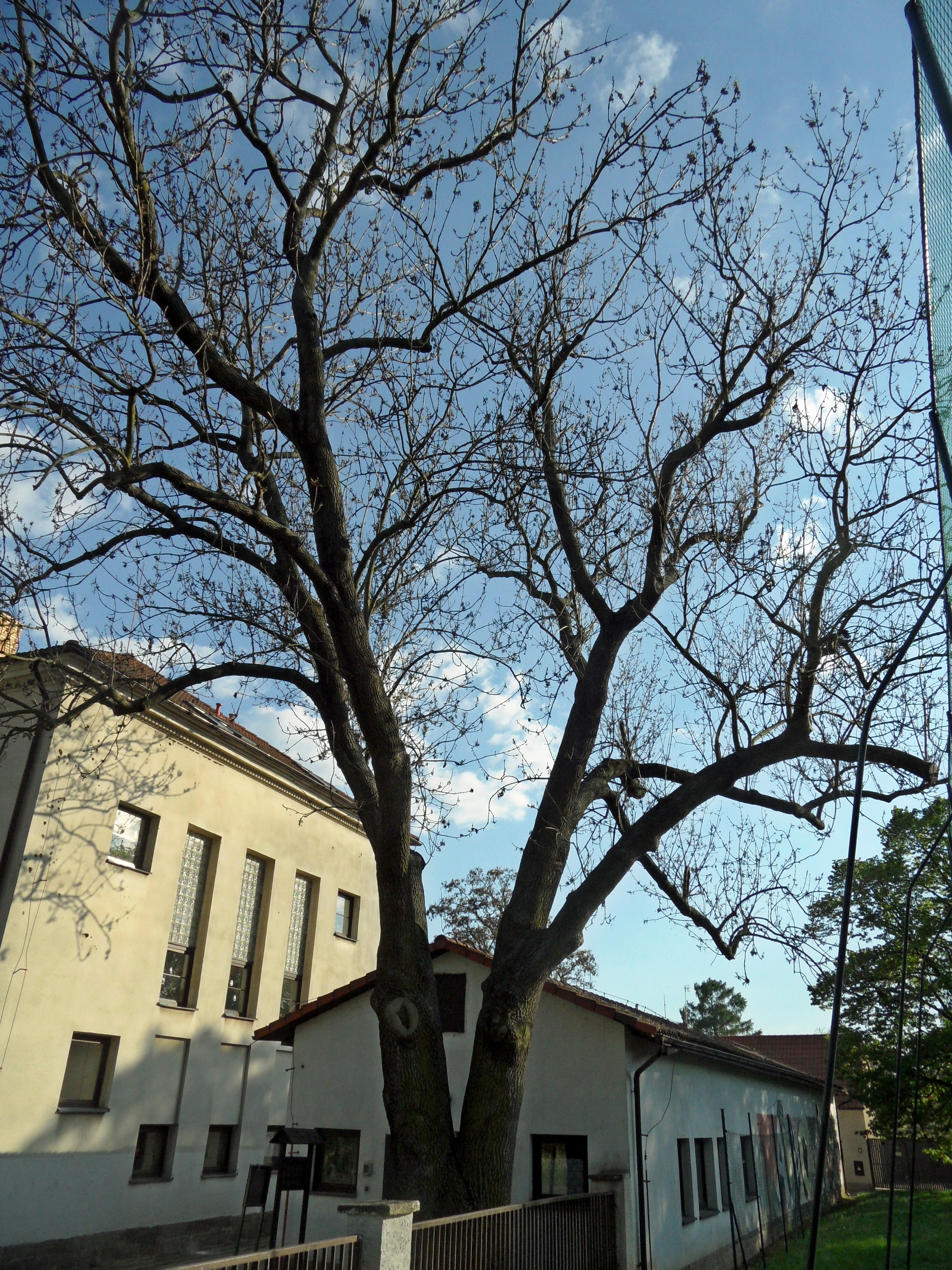 Horní Počernice, Famous tree Fraxinus excelsior, Premises of Primary School in Bártlova street: Overview from North-East. Prague, the Czech Republic.